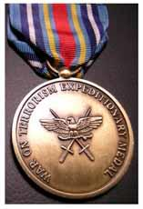 Global War On Terrorism Medal.